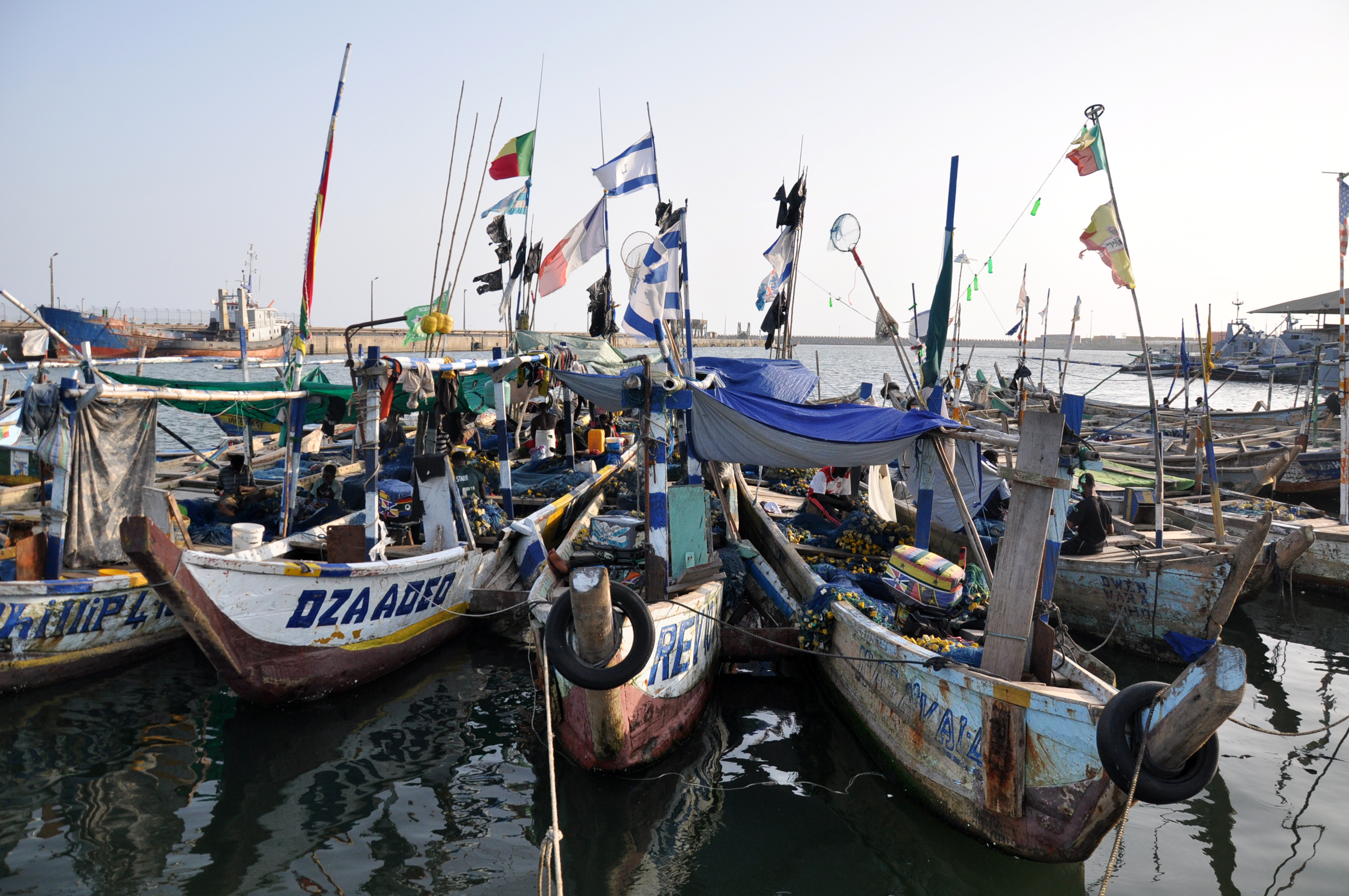 at the perch port of Benin, there is a diversity of canoes This is an image with the theme "Africa on the Move or Transport" from: Benin